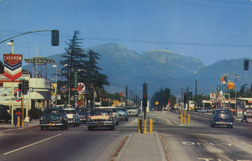 Postcard view of Foothill Boulevard with the San Bernardino Mountains in the background.